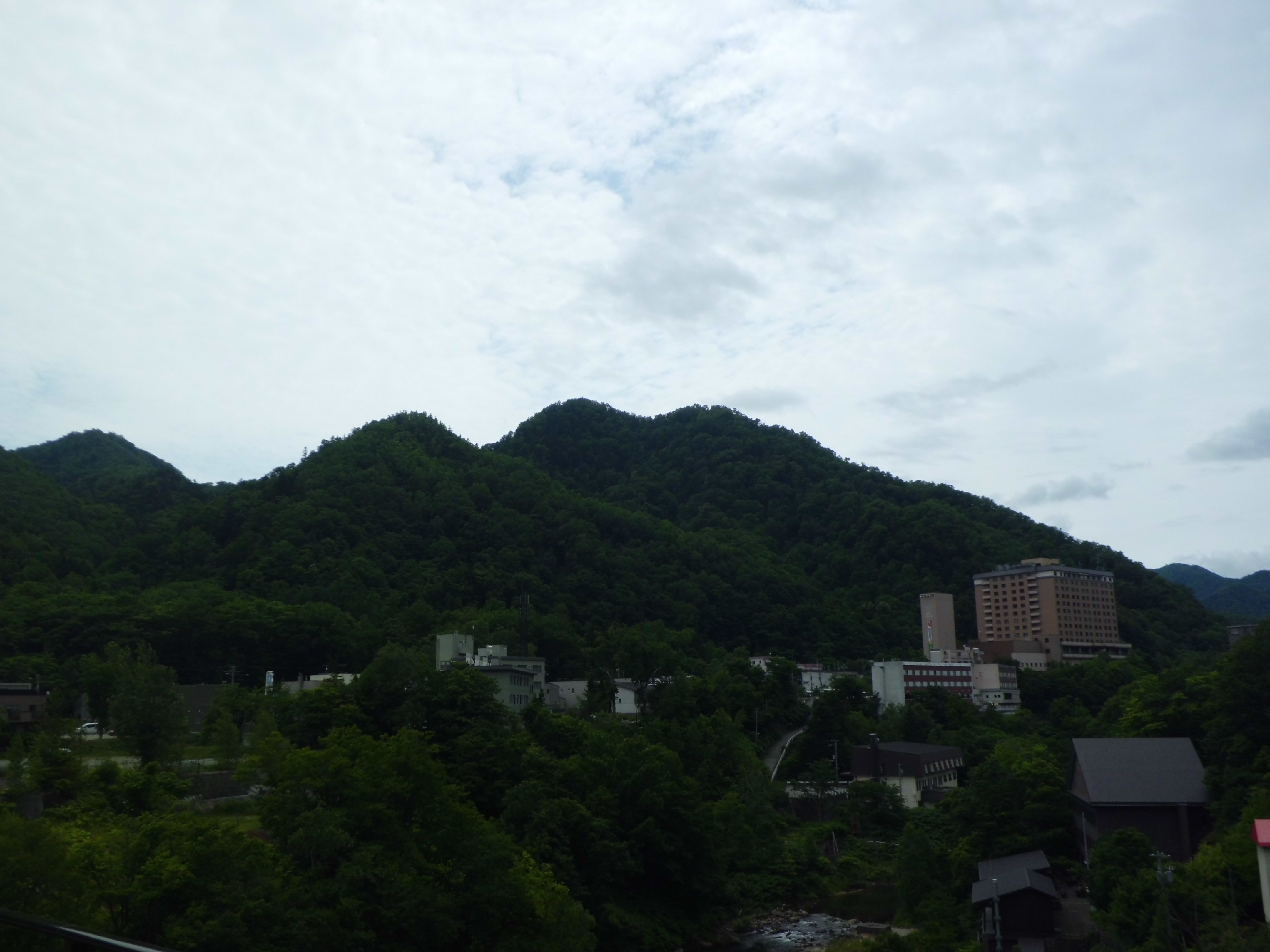 Mount Yuhi in Jozankei, Sapporo, Japan, as seen from Jozankei Bridge